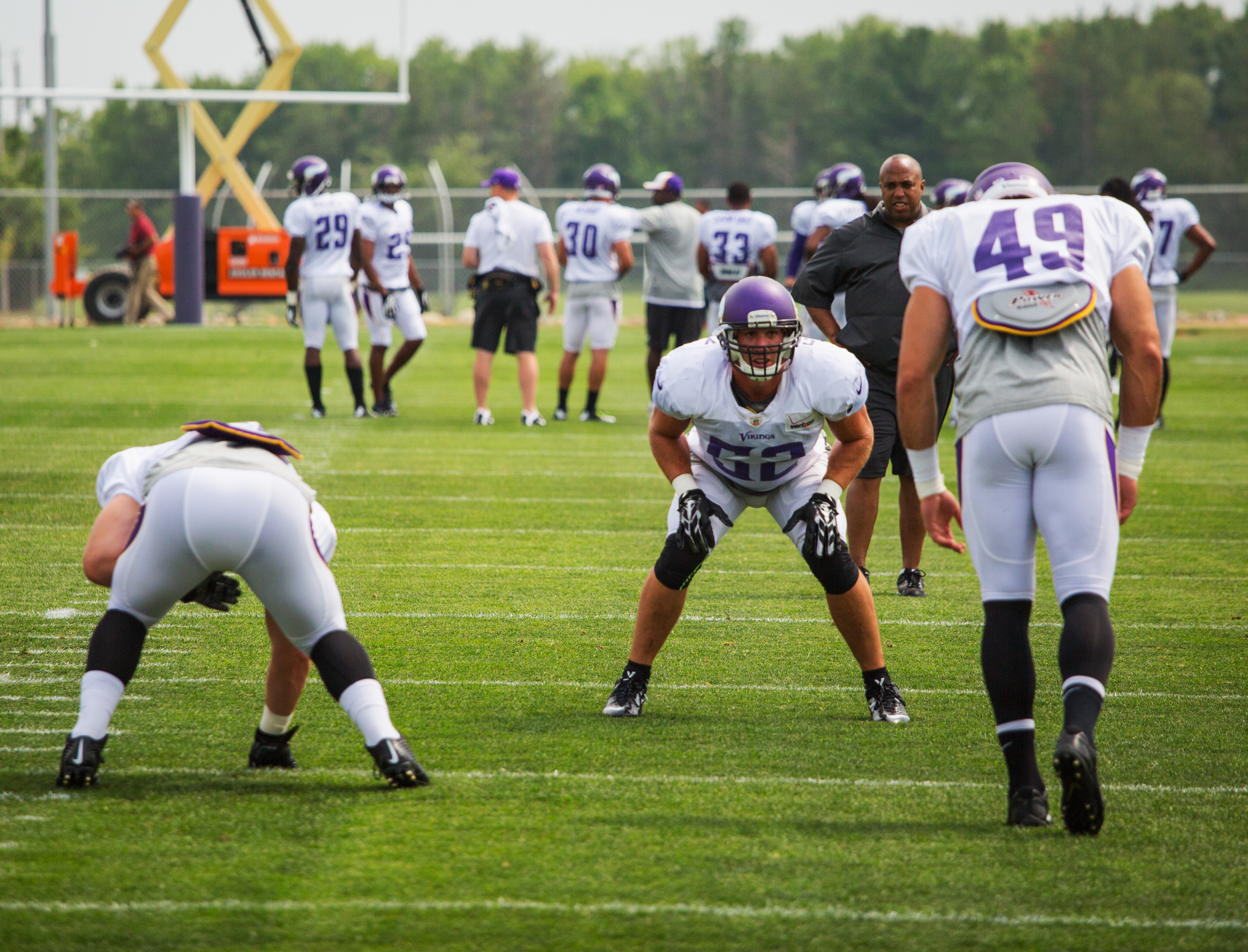 Minnesota Vikings linebacker Chad Greenway during 2014 training camp